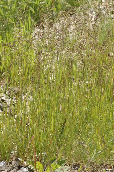 Picture taken in Commanster, Belgian High Ardennes . Species: Poa pratensis